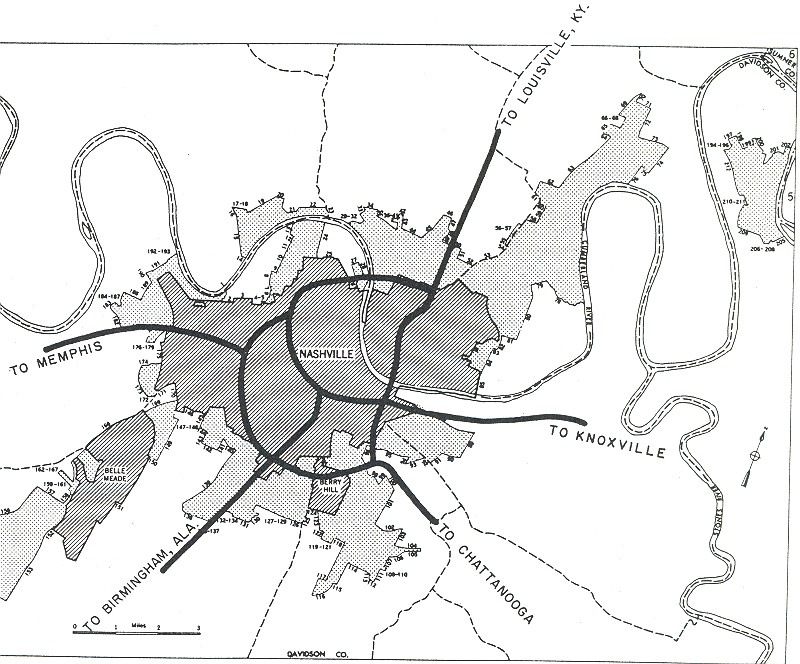 Interstates in today's terms I-24 (east of Nashville) I-40 I-65 I-265 (now part of I-65) I-440